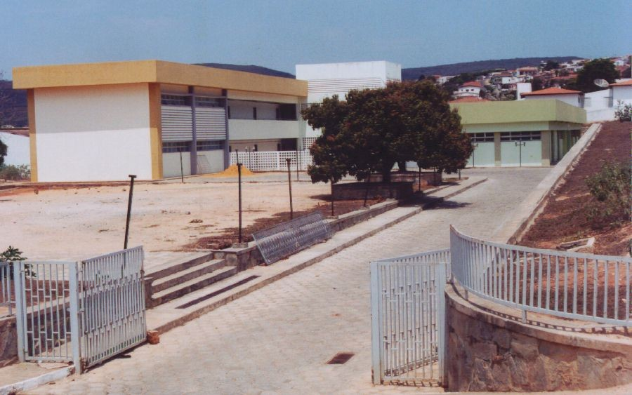 I don't do art for a living, neither for personal nor professional propaganda. I don't make any drawings for money. Thanks.